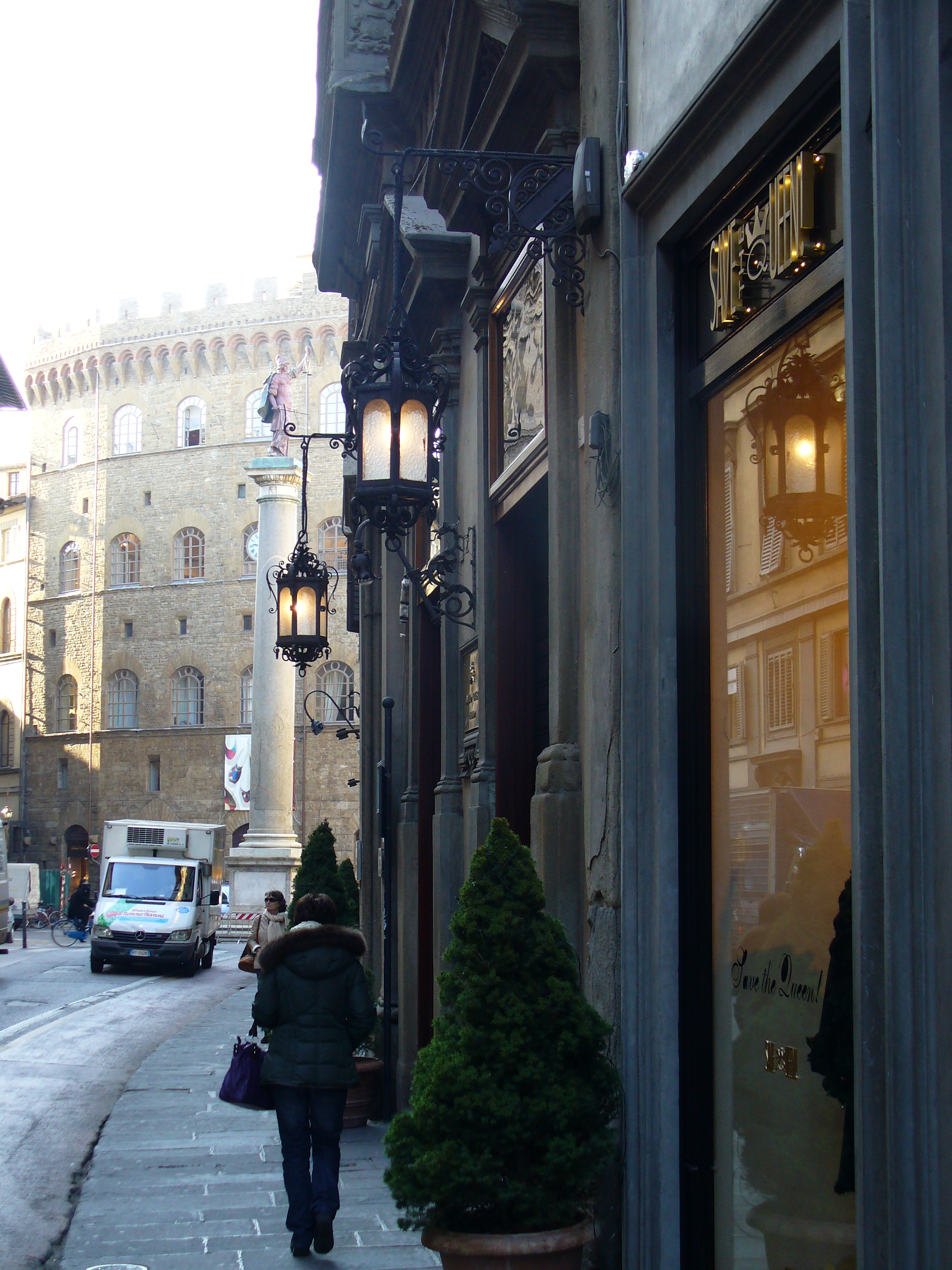 Via de' Tornabuoni